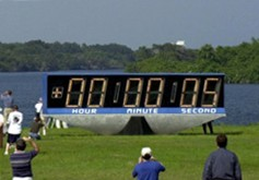 Countdown clock at Kennedy Space Center, Florida, five seconds after a space shuttle launch